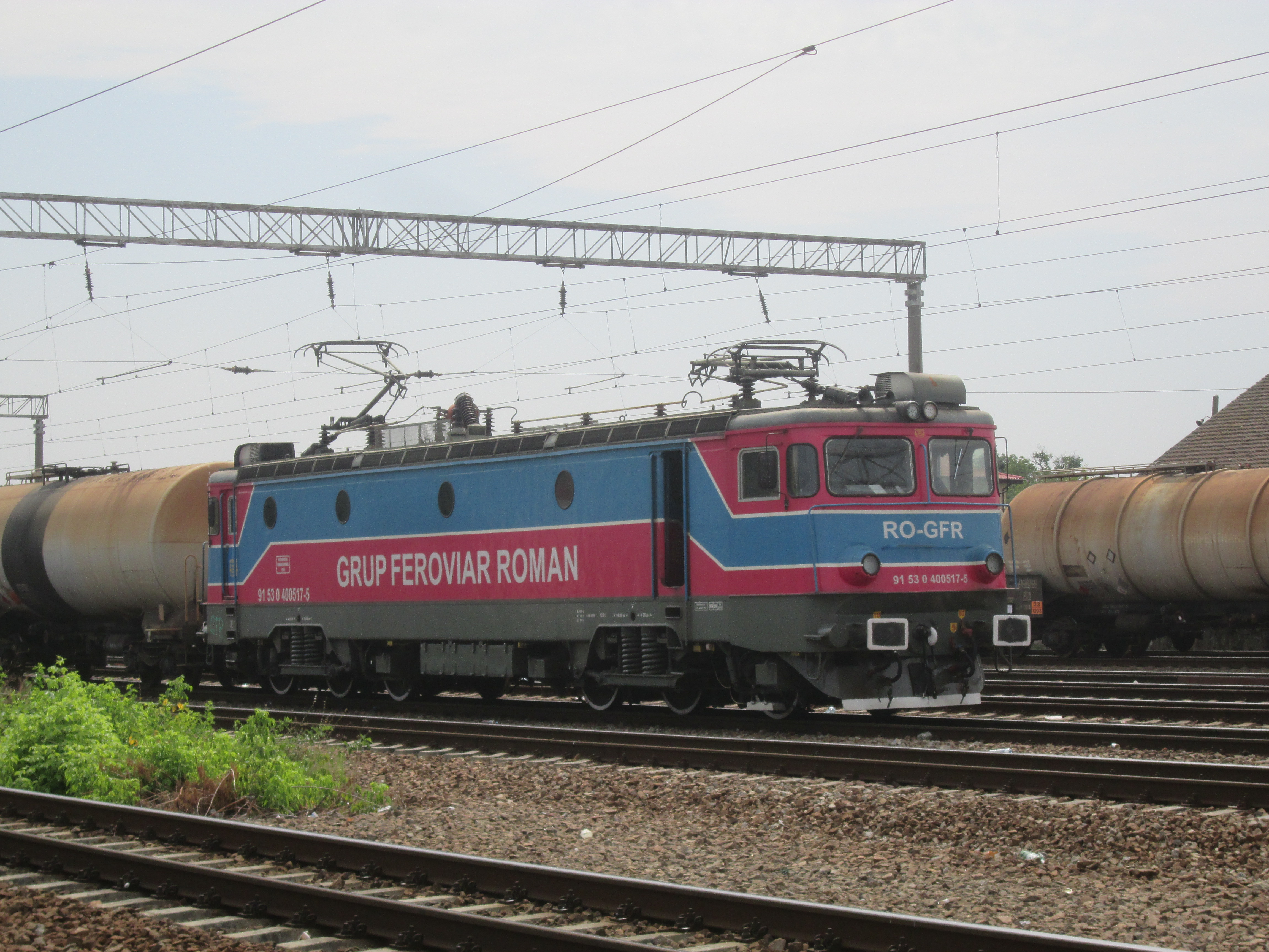 GFR 400 517 with a tanker train departing Chitila rail station